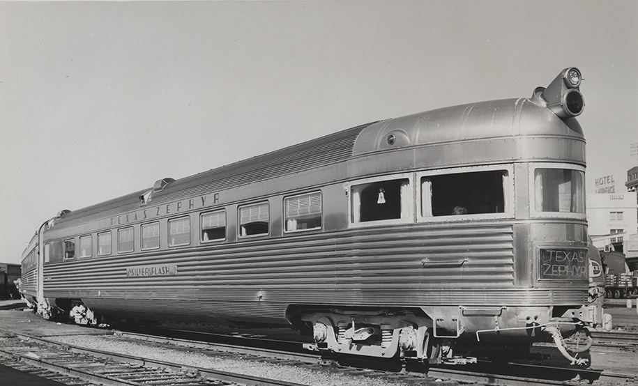 Title: C.B.&Q - C.&S. - Ft.W.&D.Ry, 'Texas Zephyr', 'Silver Flash', No. 230' Creator: DeGolyer, Everett L. (Everett Lee), 1923-1977 Date: December 26, 1960 Part of: Everett L. DeGolyer Jr. collection of United States railroad photographs Place: Dallas, Texas Physical Description: 1 photographic print: gelatin silver; 21 x 26 cm File: ag1982_0232_cbq_car_00230_01_opt.jpg Rights: Please cite Southern Methodist University, Central University Libraries, DeGolyer Library when using this image file. A high-quality version of this file may be obtained for a fee by contacting . For more information, see: Railroads: Photographs, Manuscripts, and Imprints